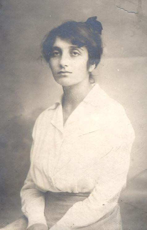 Bulgarian poet Dora Gabe (1888-1983)